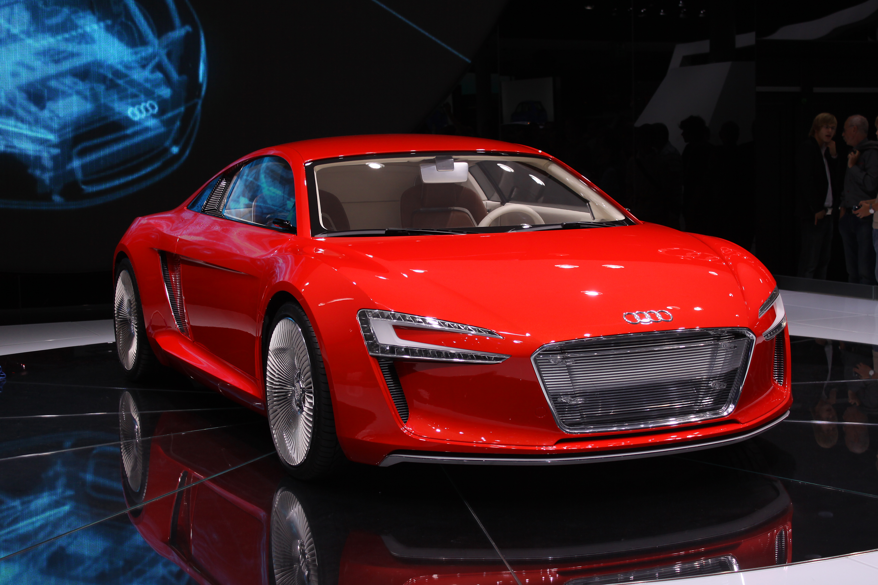 world premiere of the electric car "Audi e-tron" at the International Motor Show 2009 in Frankfurt, Germany